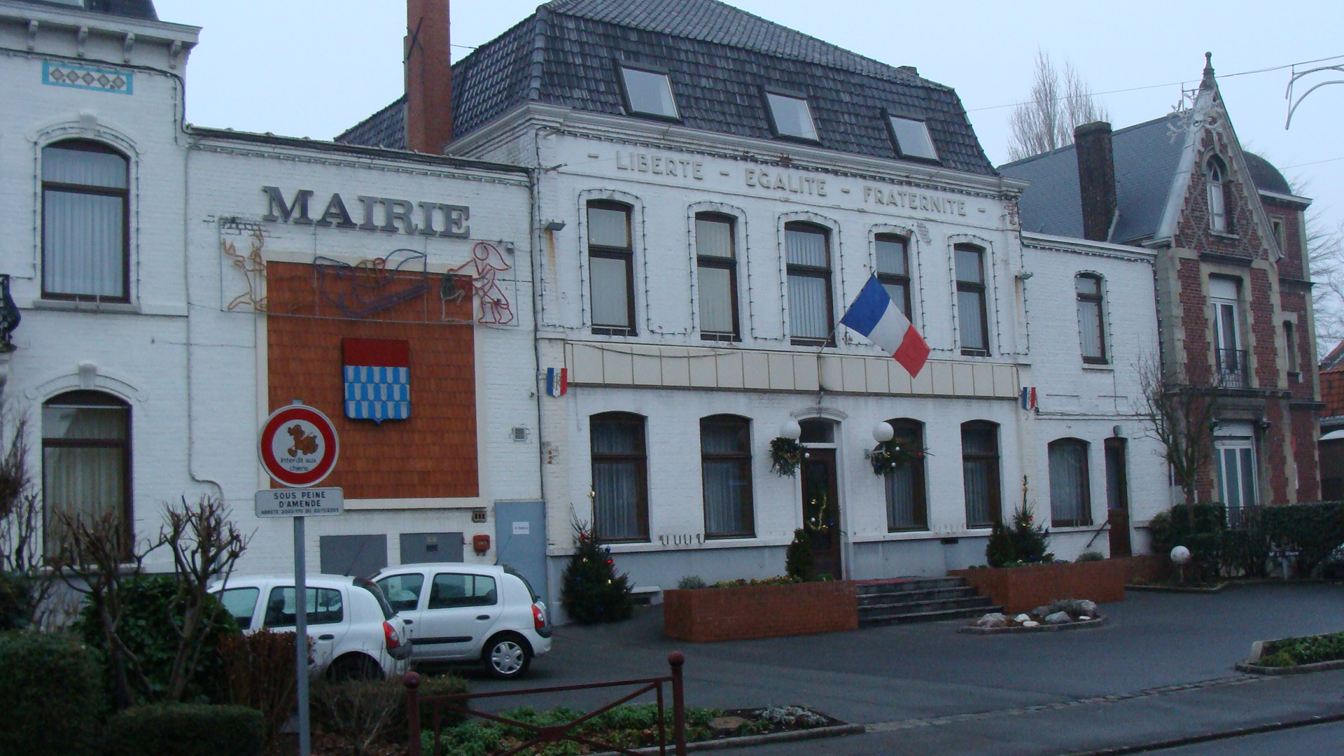 The city hall of Lys lez Lannoy in the North of France.